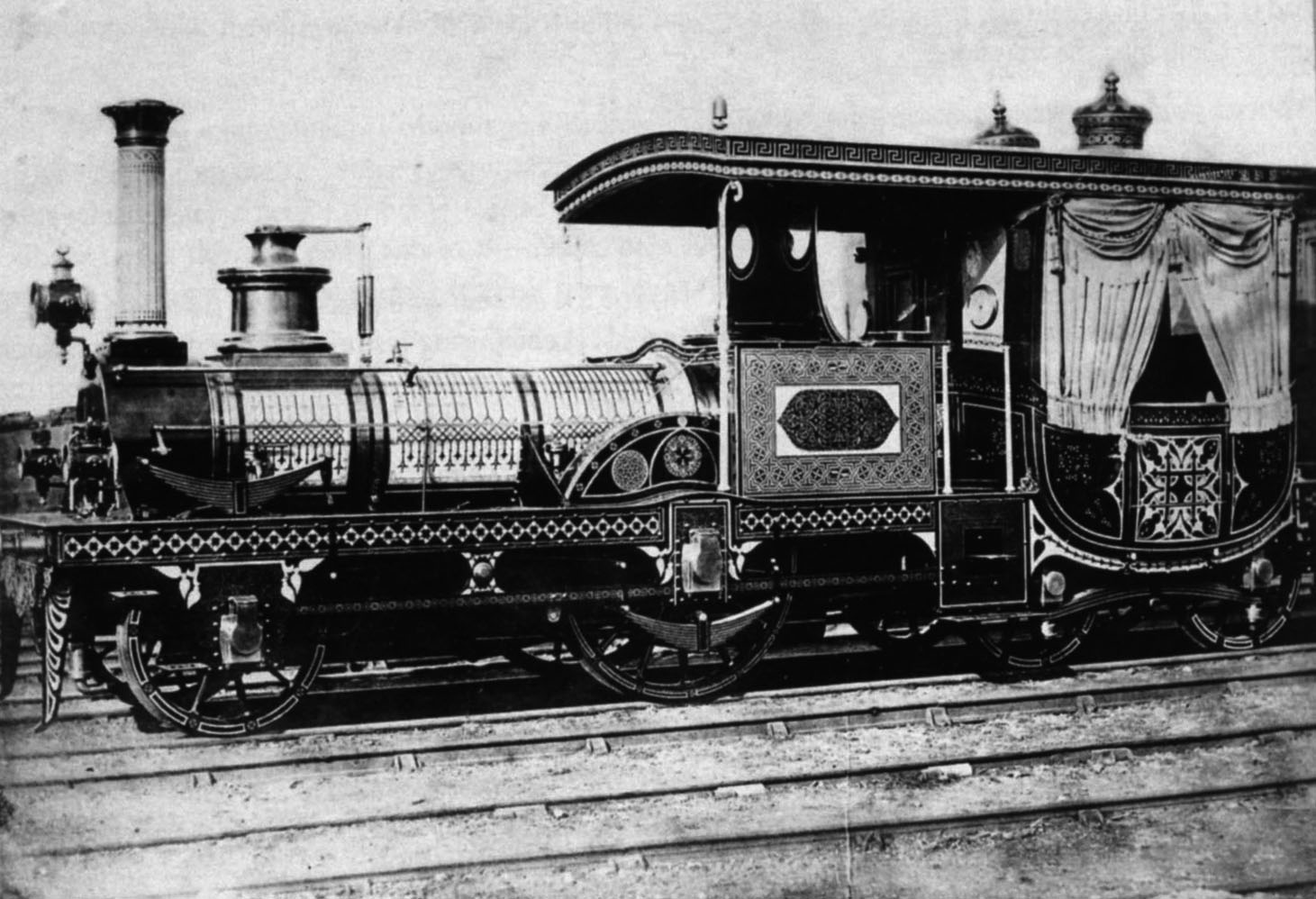 Kiosklocomotive for the khedive of Egypt